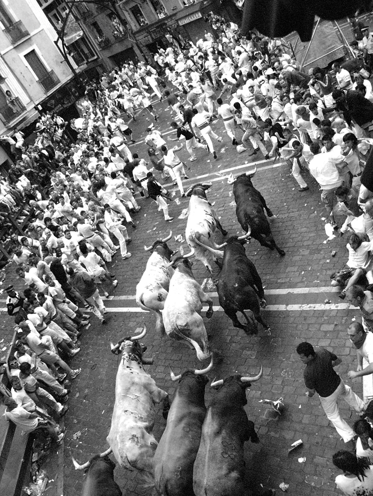 Running of the bulls during Sanfermines in Iruñea - Pamplona, Spain.